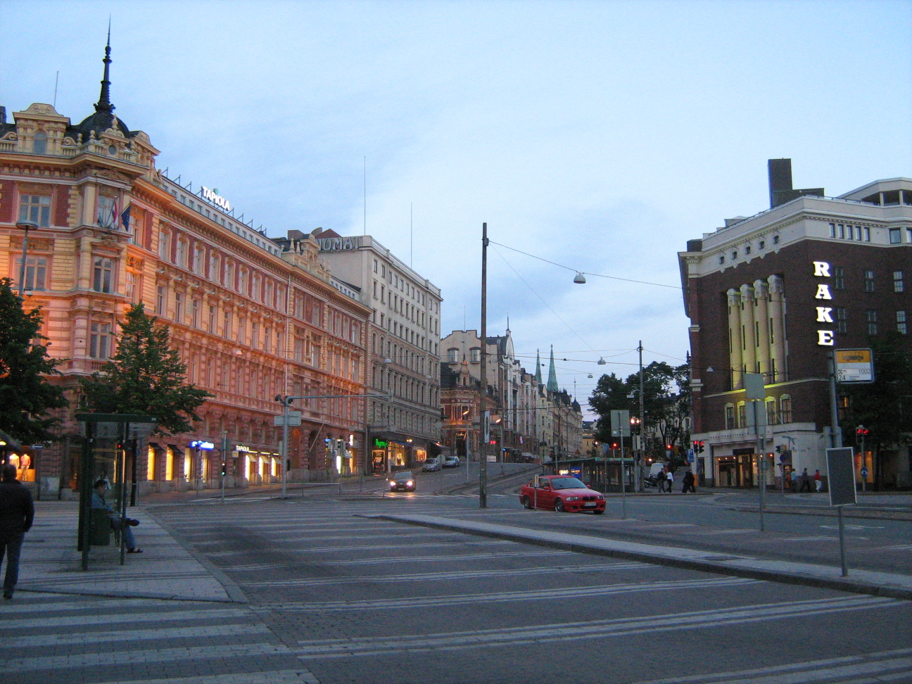 Erottaja street in downtown Helsinki